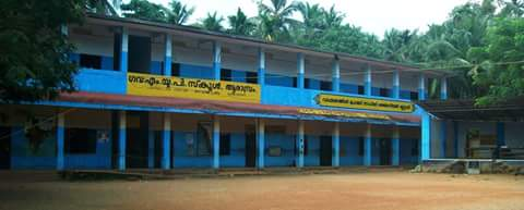 GM Upper Primary School, Arambram